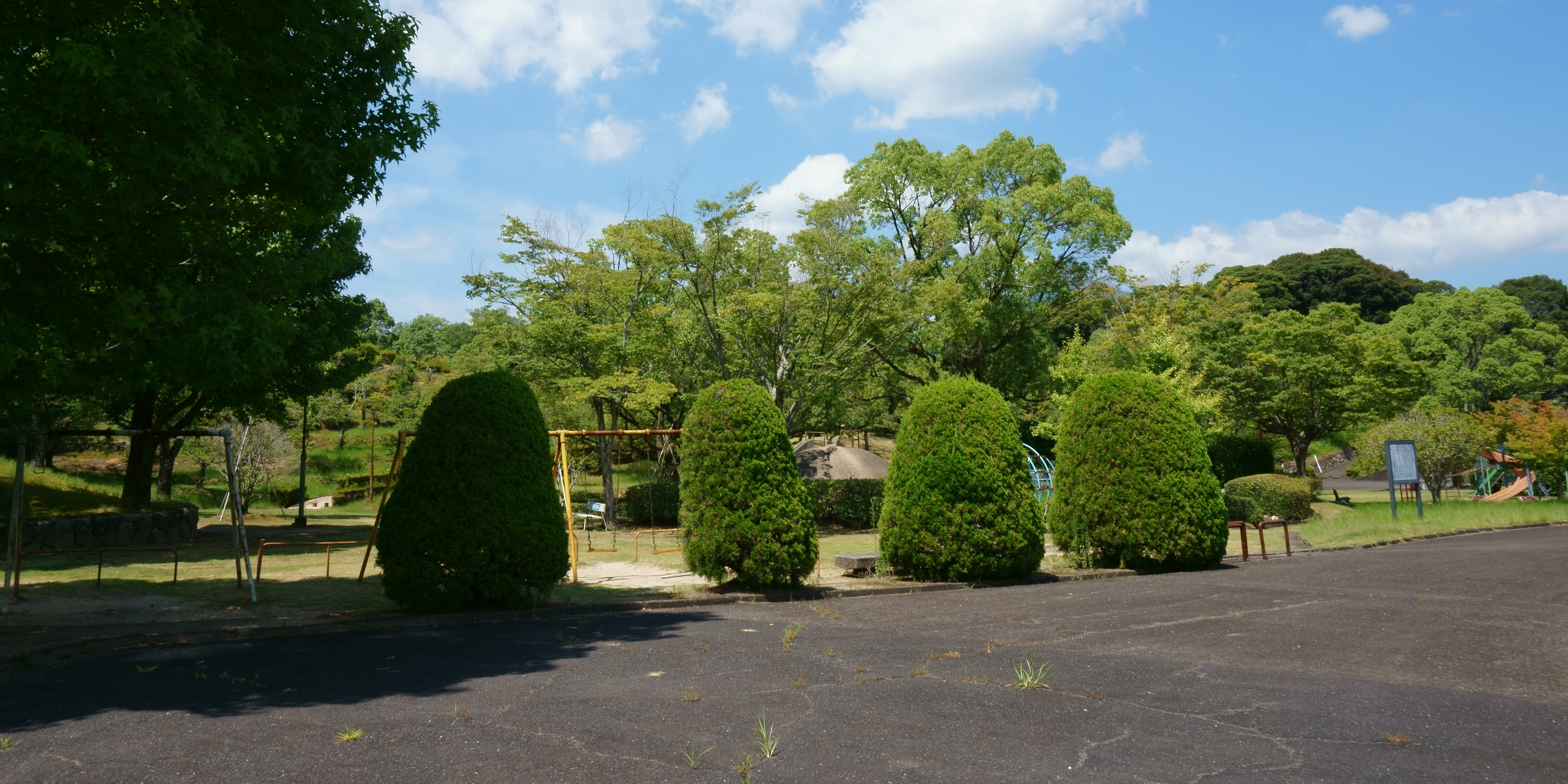 Chuō Park in Kitataku, Taku city, Saga prefecture.